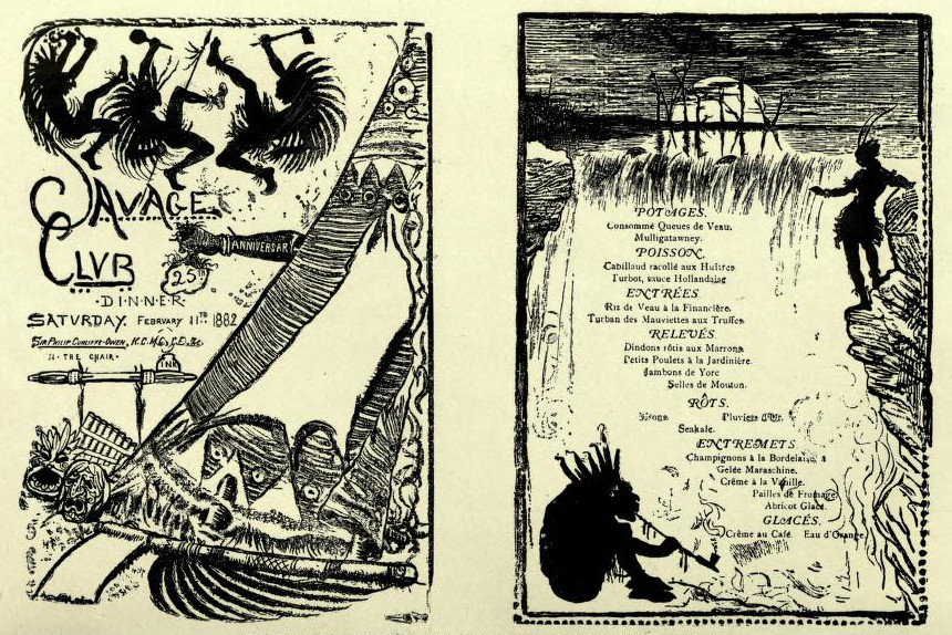 Artwork (menu for 1882 dinner in honour of the Prince of Wales, later King Edward VII, at the Savage Club in London) credited in the caption to Harry Furniss (1854-1925). The artwork appears facing page 139 in 'The Savage Club : a medley of history, anecdote, and reminiscence' by Aaron Watson (1850-1909), published in 1907, in the UK by T. Fisher Unwin. The book is at the Internet Archive